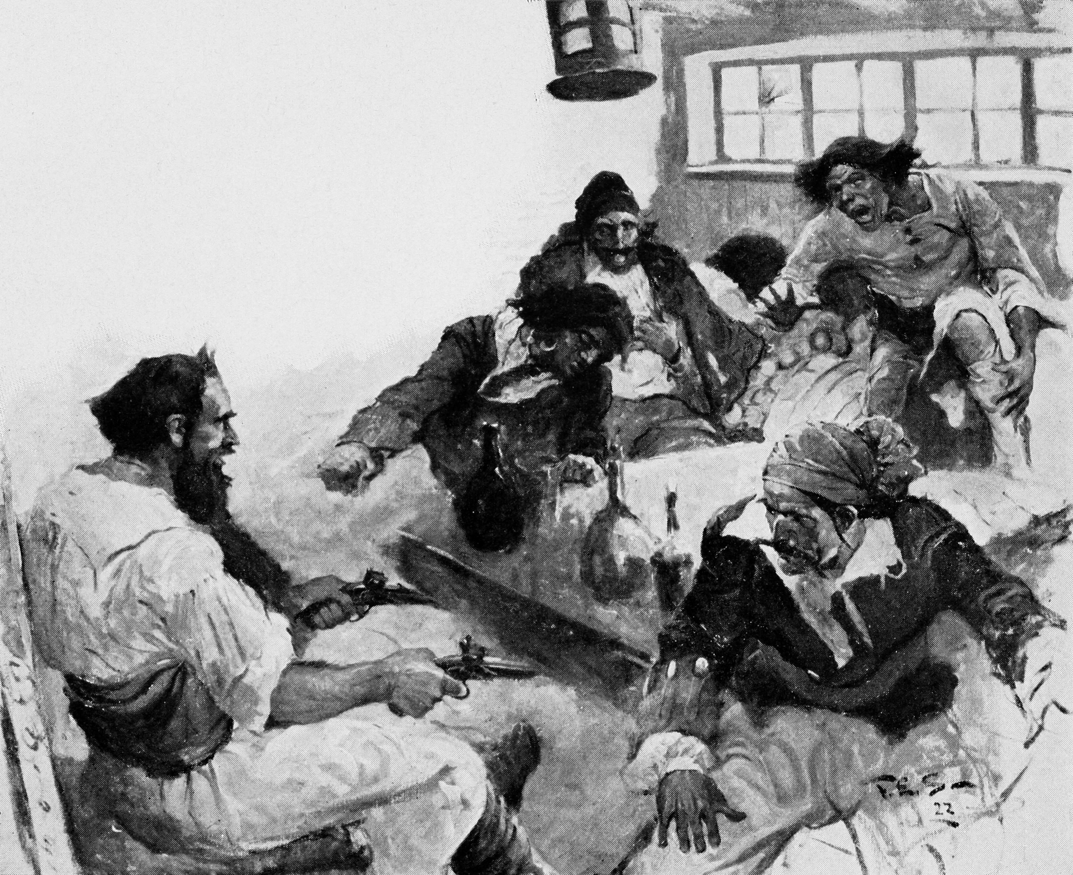 Titled The First Mate Leapt Up with a Horrible Yell in Blackbeard, Buccaneer, this work is titled Blackbeard Shoots Israel Hands in Blackbeard: The Pirate King.[1] This art was commissioned for Paine's serialized work on Blackbeard.[2]